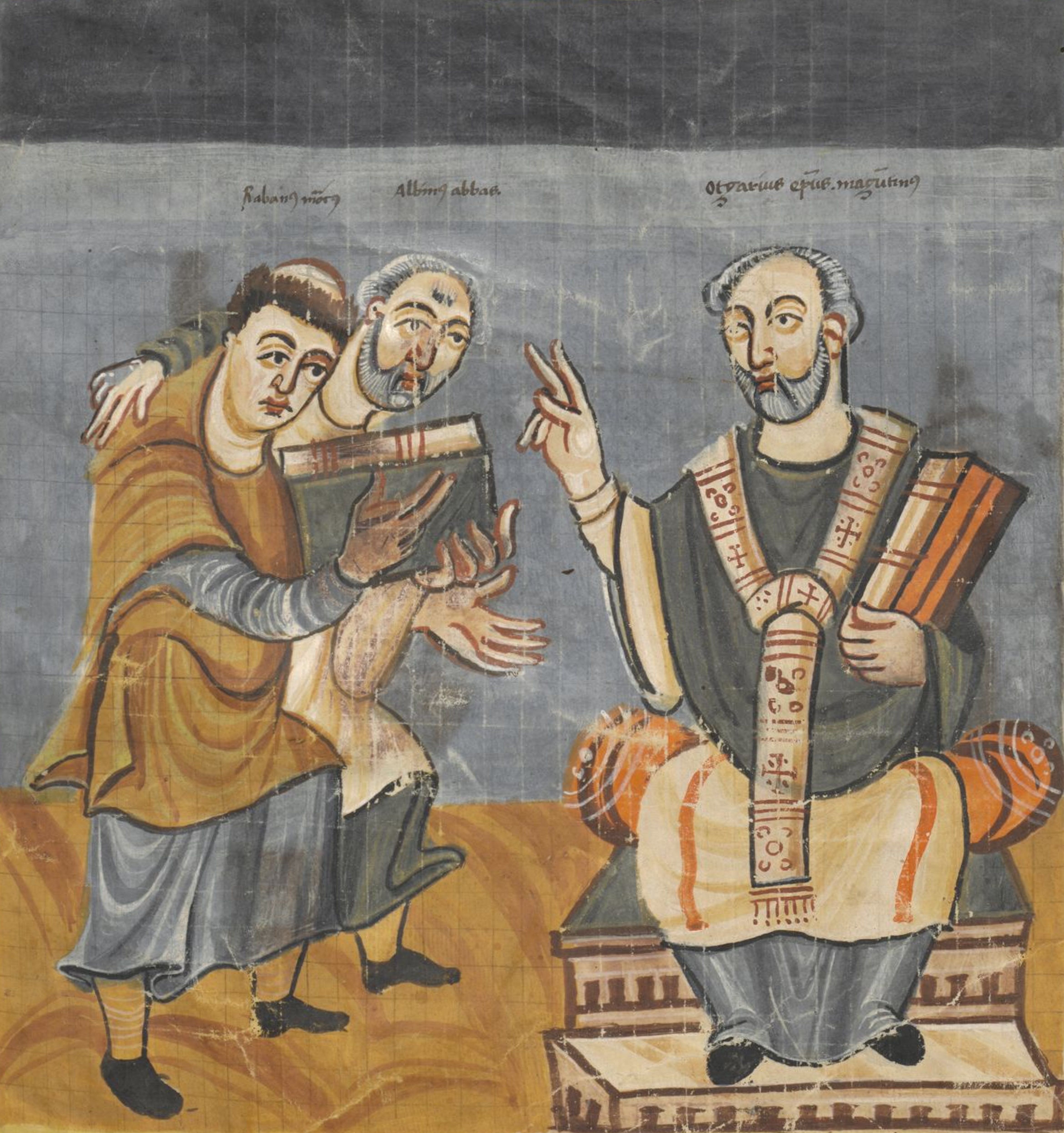 Raban Maur (left), supported by Alcuin (middle), dedicates his work to Archbishop Otgar of Mainz (Right)